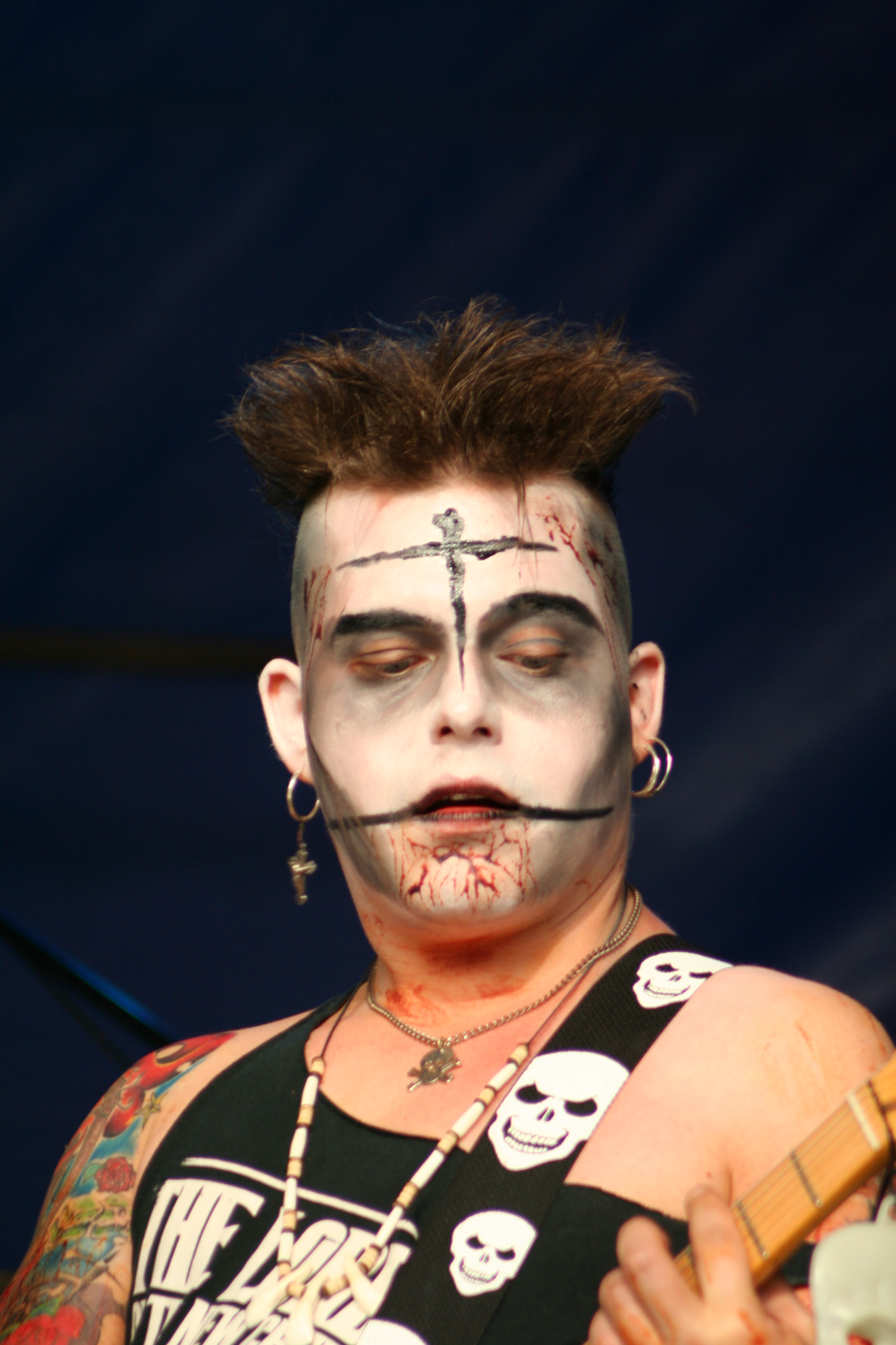 Castle Party 2007